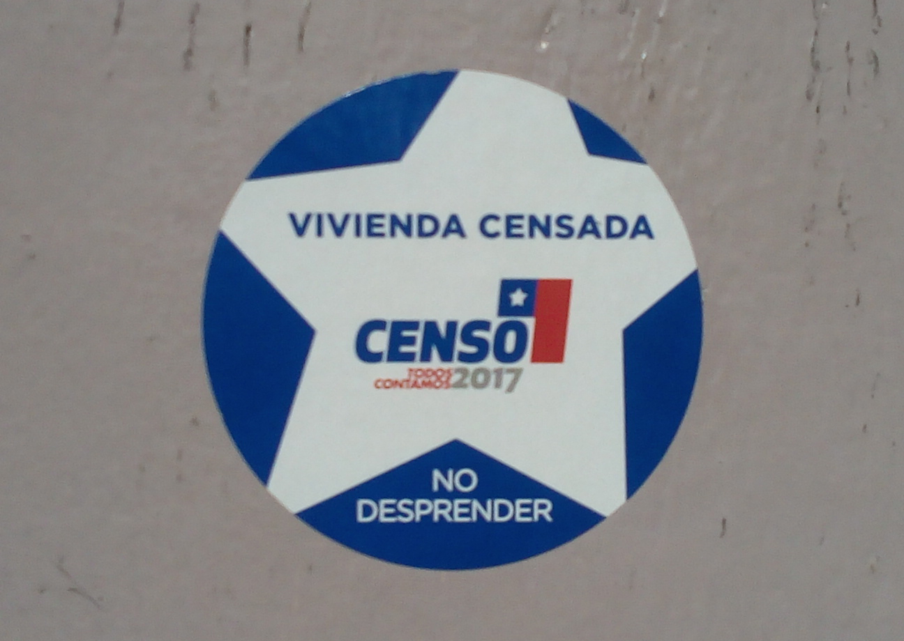 Sticker identifying a house that has been surveyed on the 2017 Chilean Census.